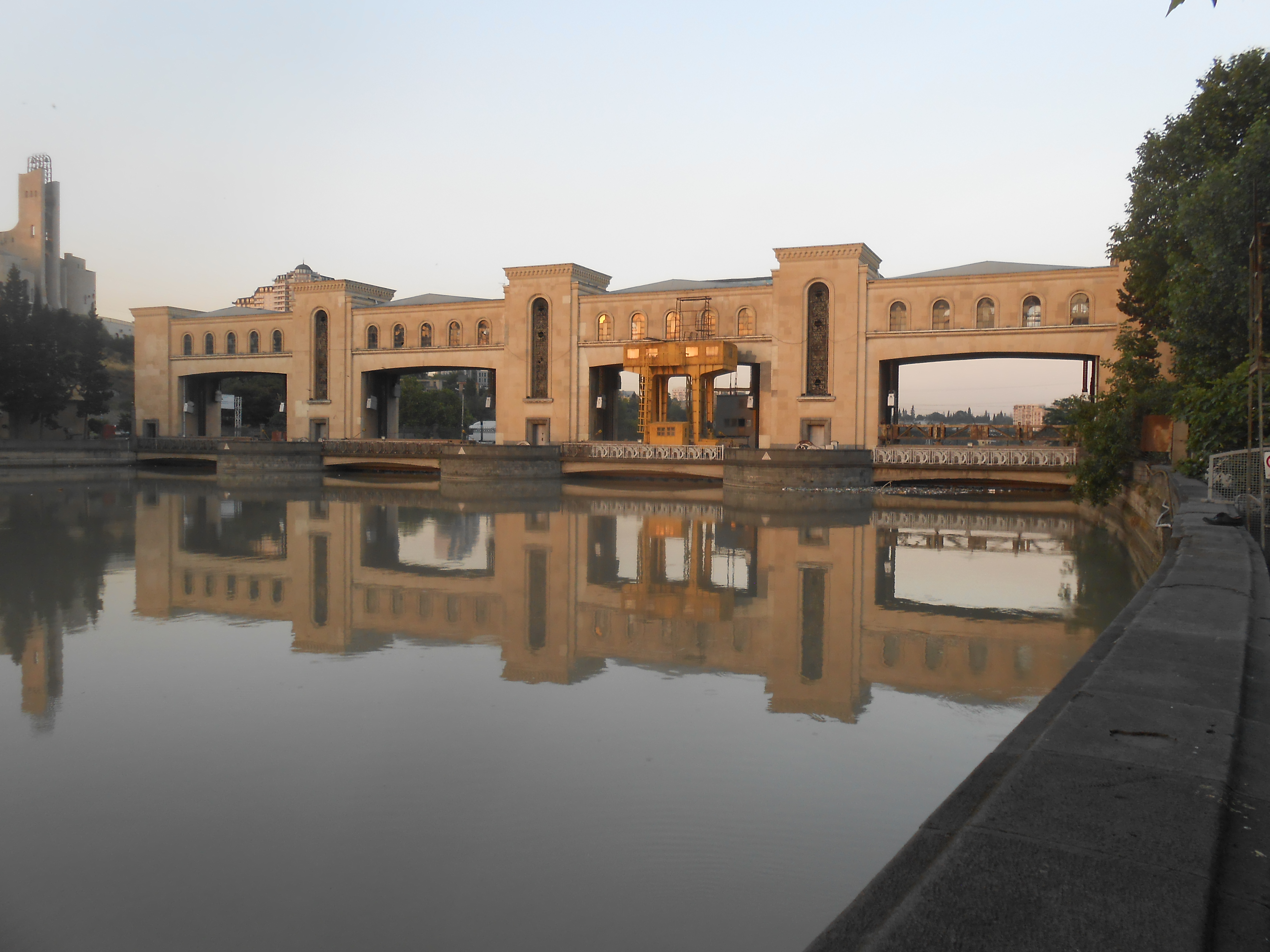 A view of the Ortachala power plant from the Mtkvari embankment, June 2015